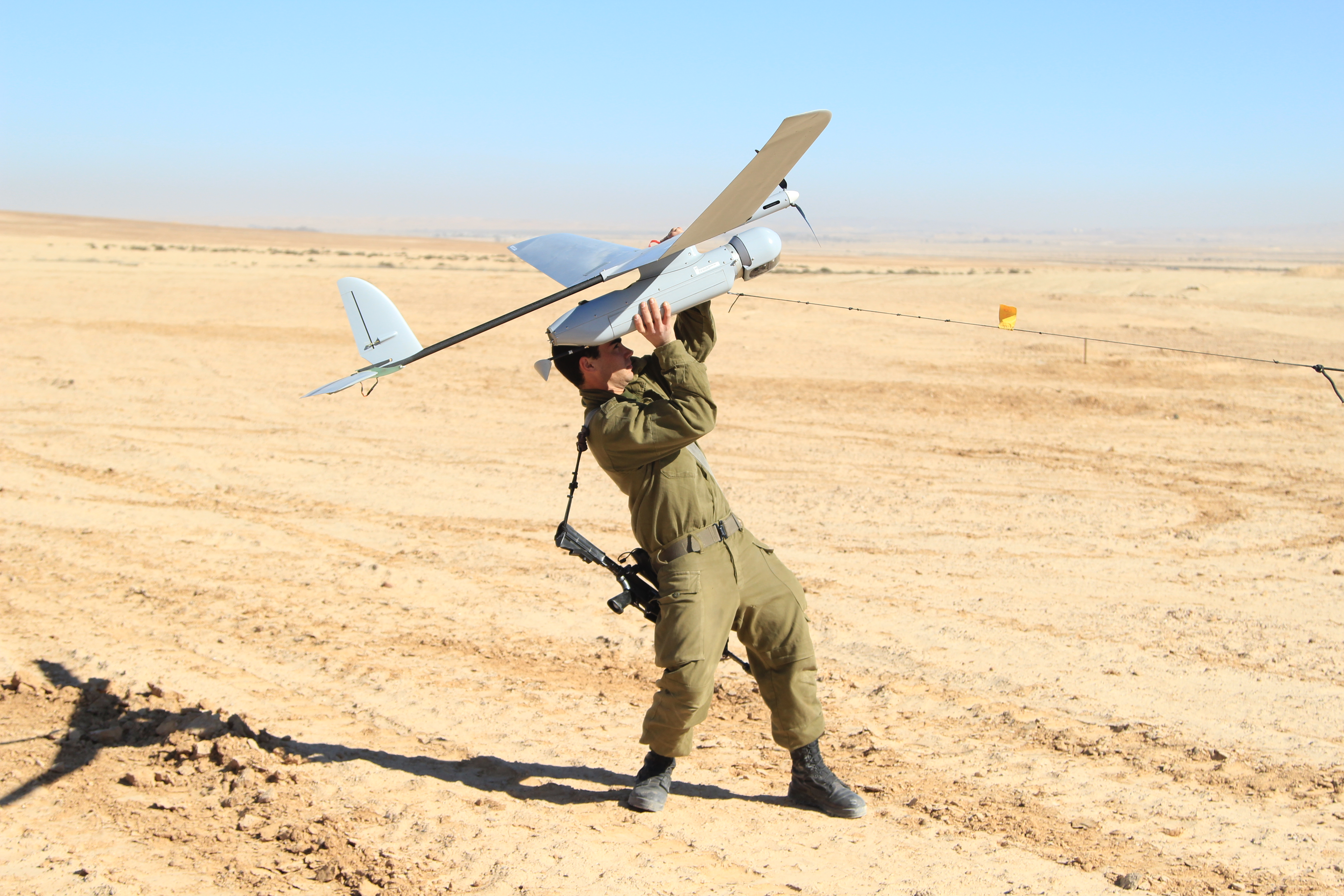 January 21, 2013 Soldiers of the Skylark I-LE unit spent a week in the Negev Desert learning how to operate the Skylark drone. The drone is lightweight and unnoticeable up above. It boasts 3 hours of flight-time while streaming a live video feed day and night. Photo by Cpl. Zev Marmorstein, IDF Spokesperson's Unit The Israel Defense Forces Facebook • blog • Twitter